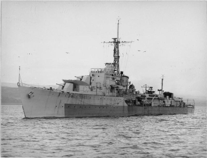 British destroyer HMS ZEBRA at anchor.